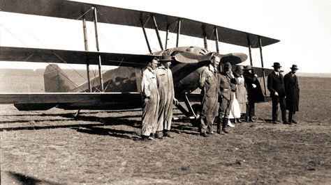 Avion Boliviano curtiss 18 T